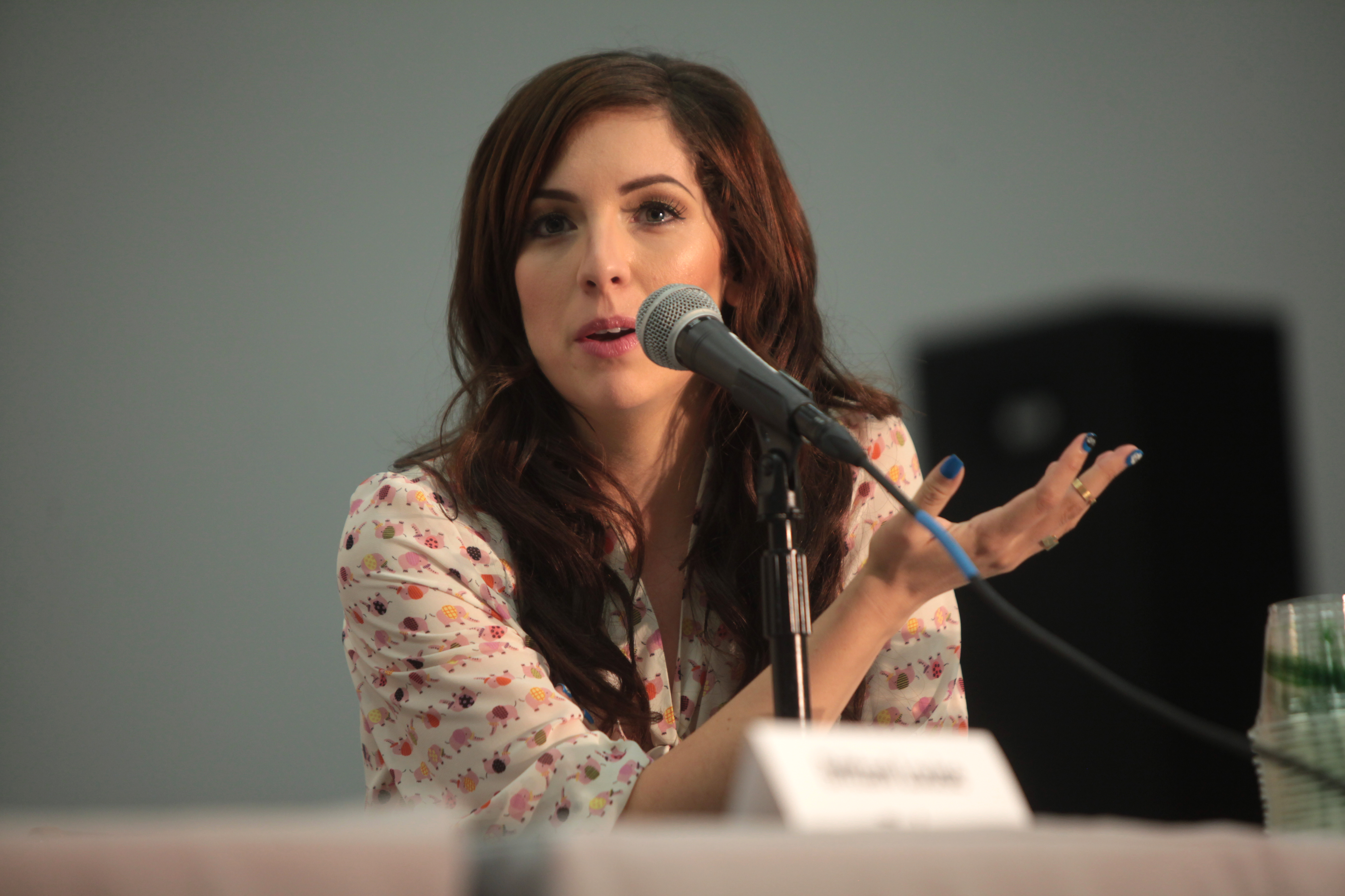 Meghan Camarena speaking at the 2014 VidCon at the Anaheim Convention Center in Anaheim, California.